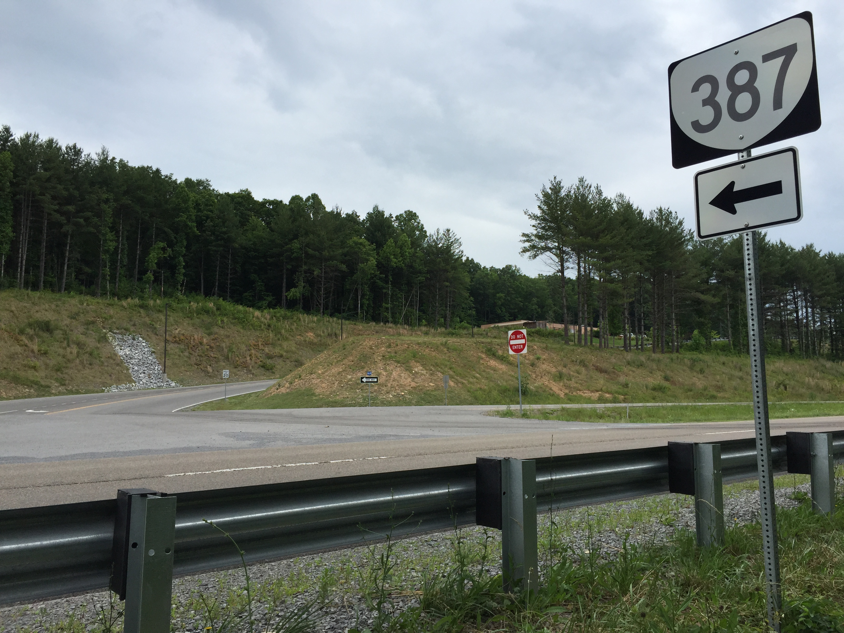 View north along Virginia State Route 387 (Mountain Empire Road) at U.S. Route 23 and U.S. Route 58 Alternate (Orby Cantrell Highway) at the Mountain Empire Community College in Irondale, Wise County, Virginia